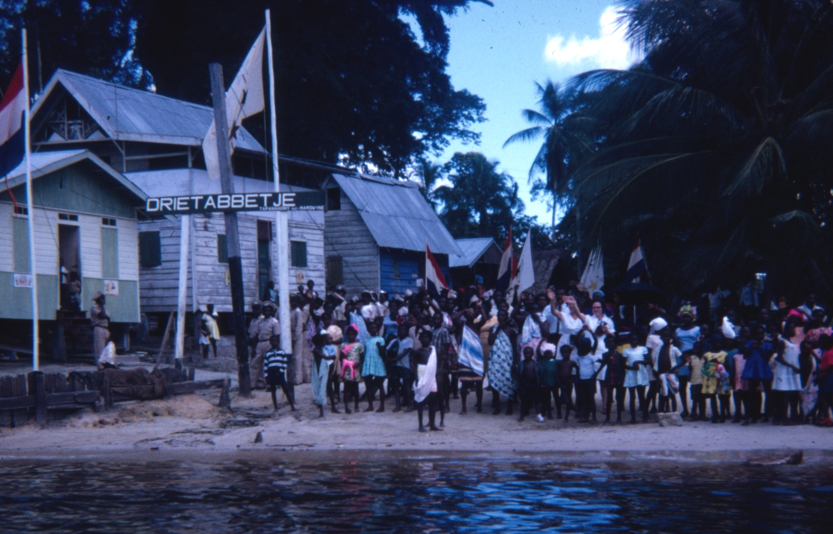 Drietabbetje